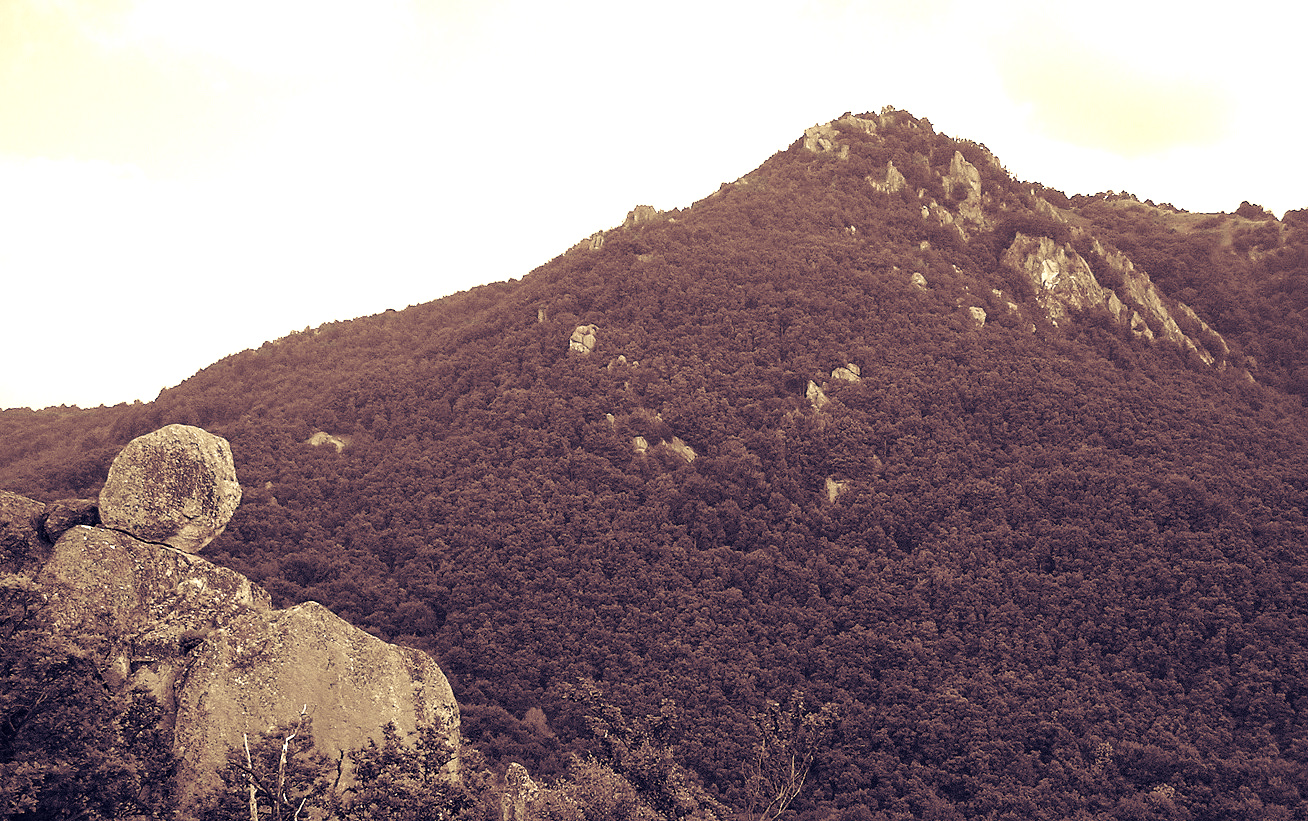 Sborovi gramadyi BG